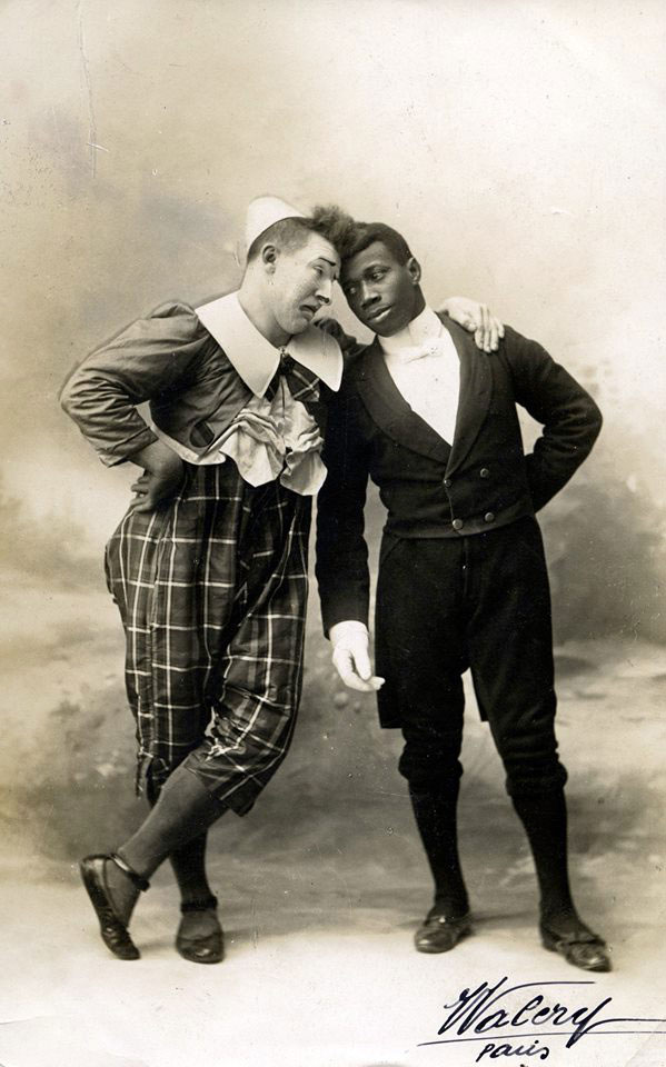 Footit and Chocolat were two famous clowns who performed in Paris around the turns of the 20th century.